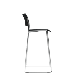 40/4 barstool by David Rowland